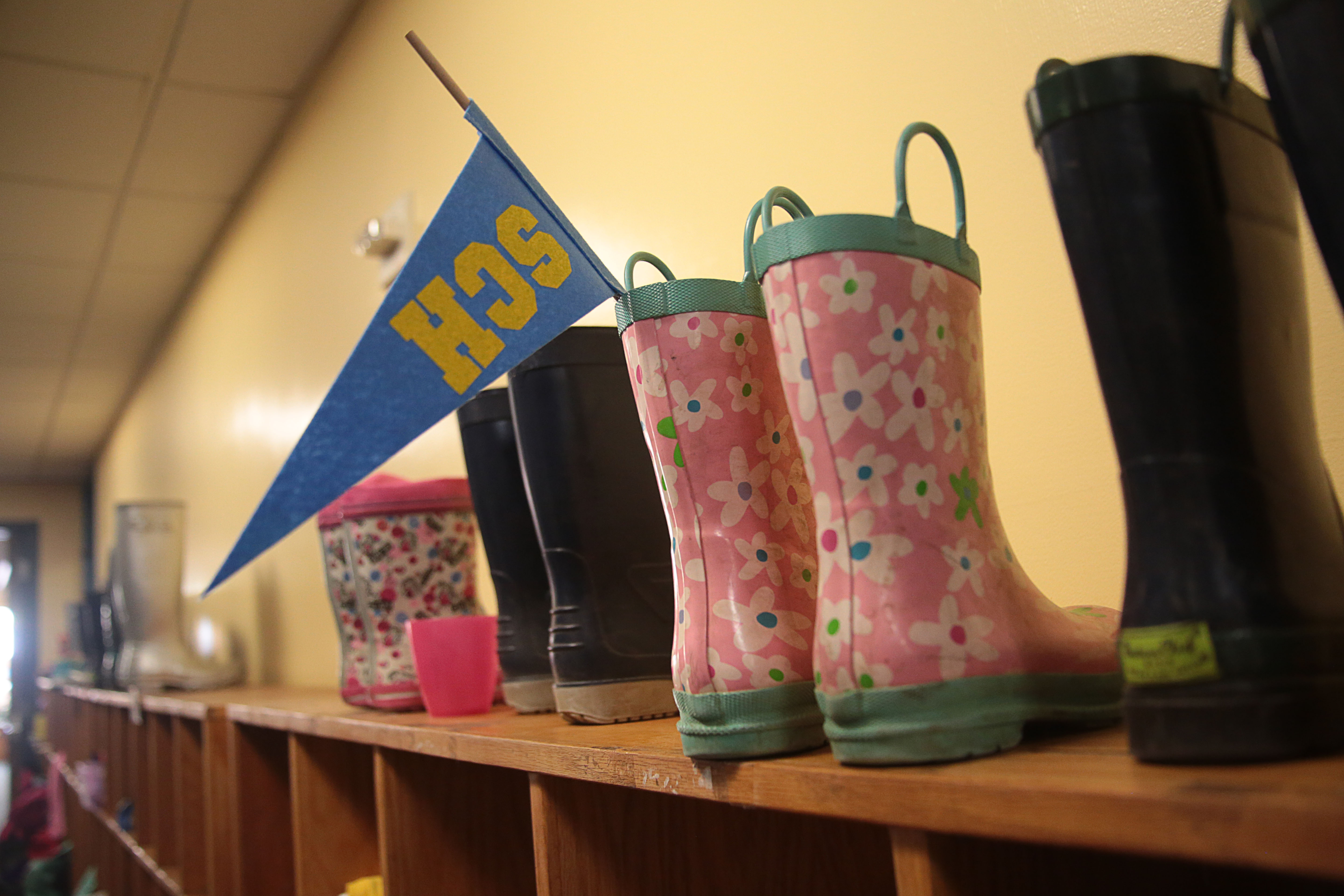 SCH students make regular trips down to the Wissahickon creek, along its trails, and through its woods as they develop their sense of environmental stewardship, learn about sustainability, enjoy its natural beauty, and study the challenges facing this native habitat.